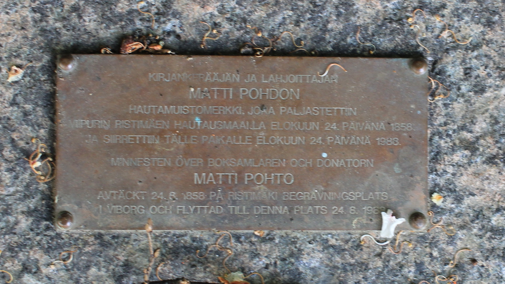 Matti Pohto memorial, Helsinki, Finland. - Info plaque on the memorial.